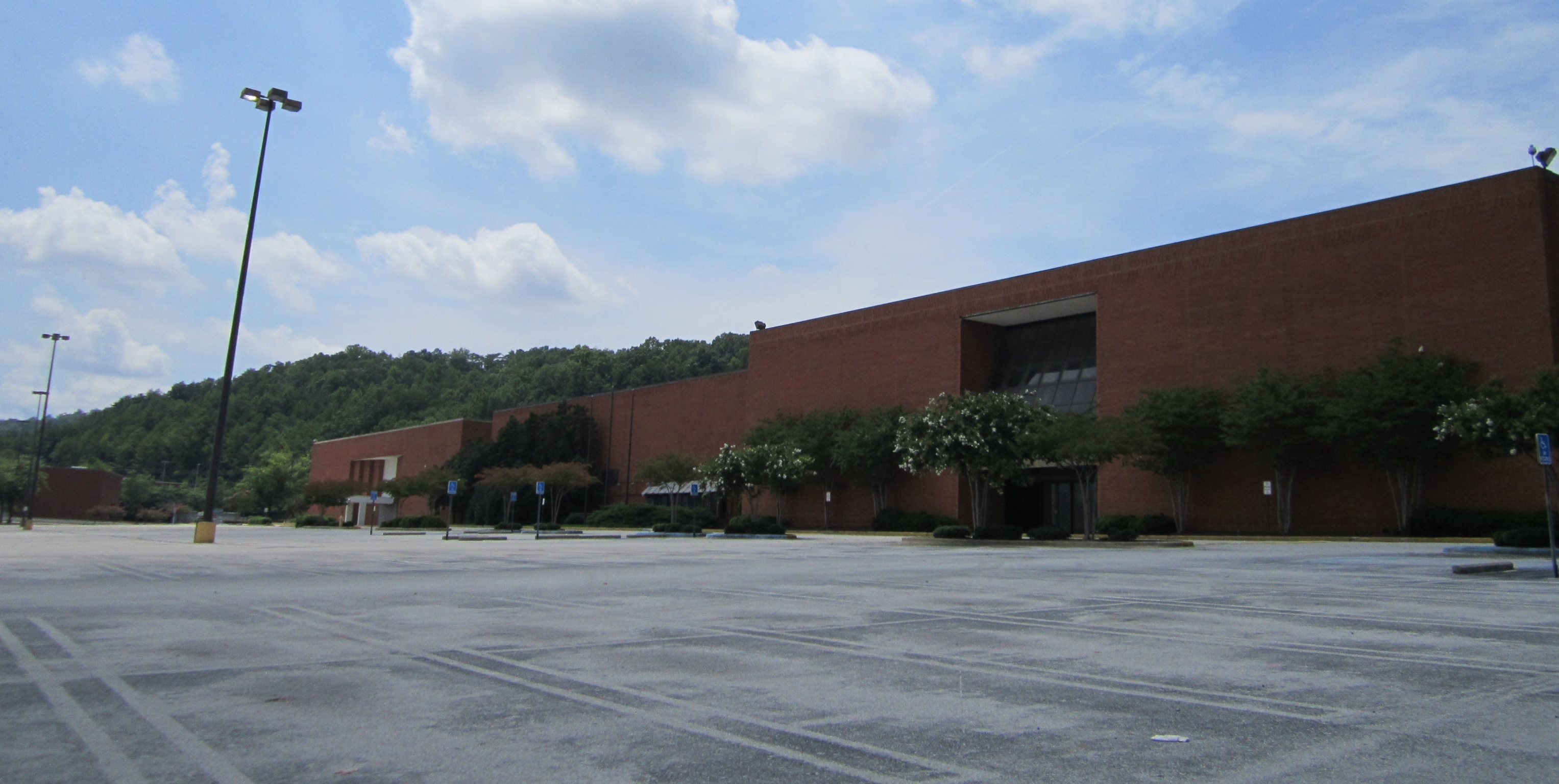 Abandoned Century Plaza mall in Birmingham, AL.